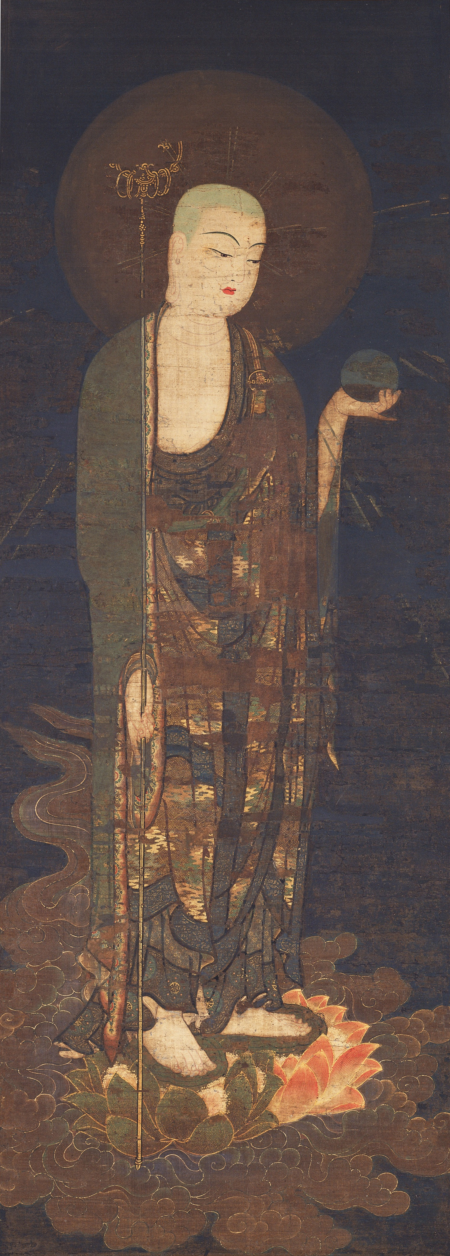 Jizō Bosatsu, Nara National Museum